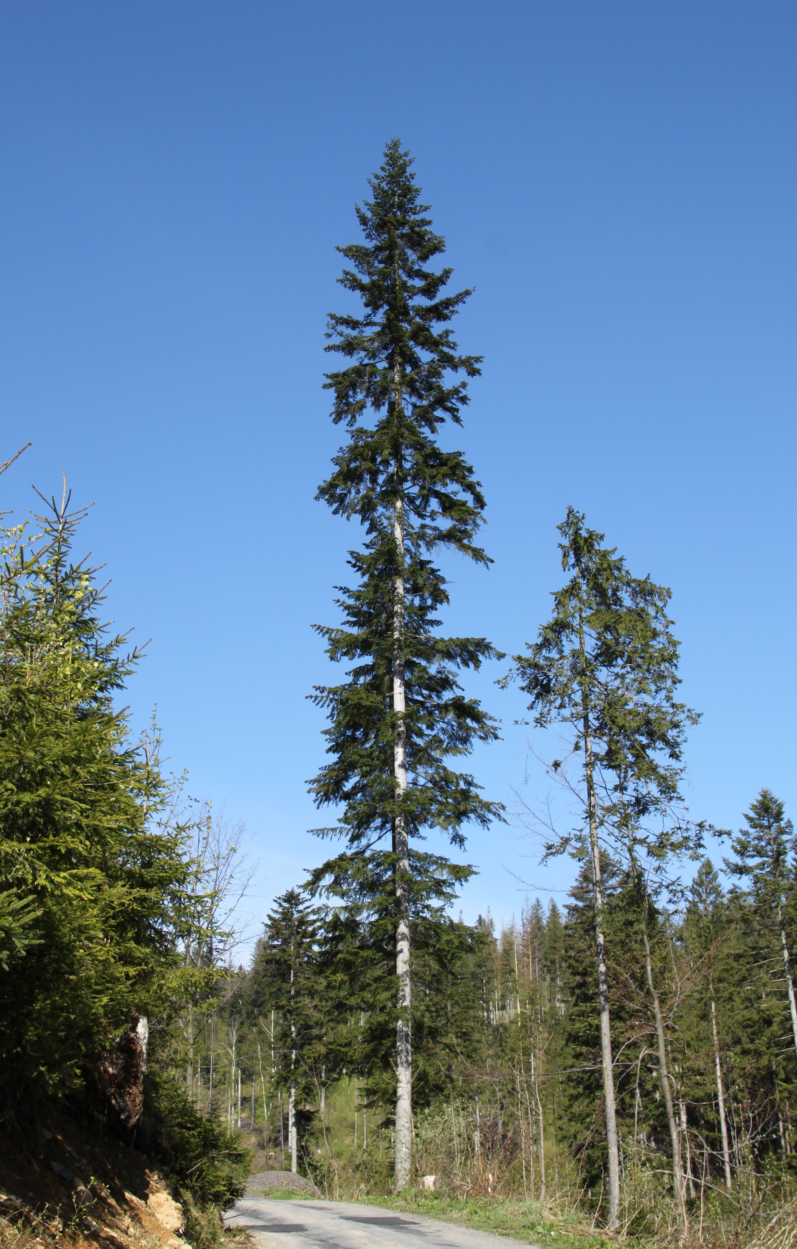 Silver Fir (Abies alba) in Silesian Beskids, Poland.